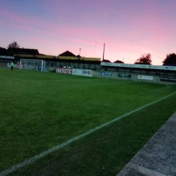 Richard Hirst Stand